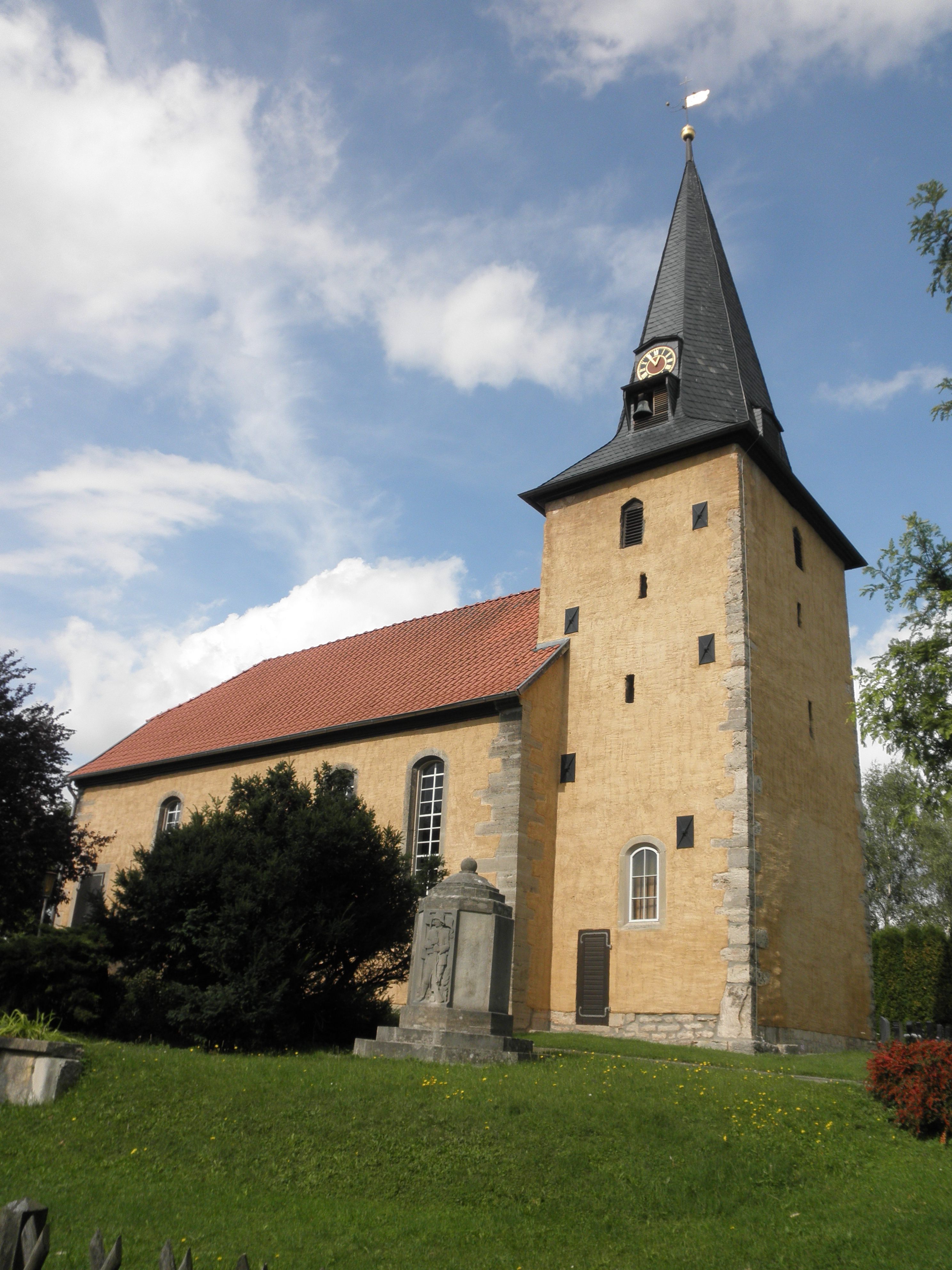 Church in Hollenbach in Thuringia